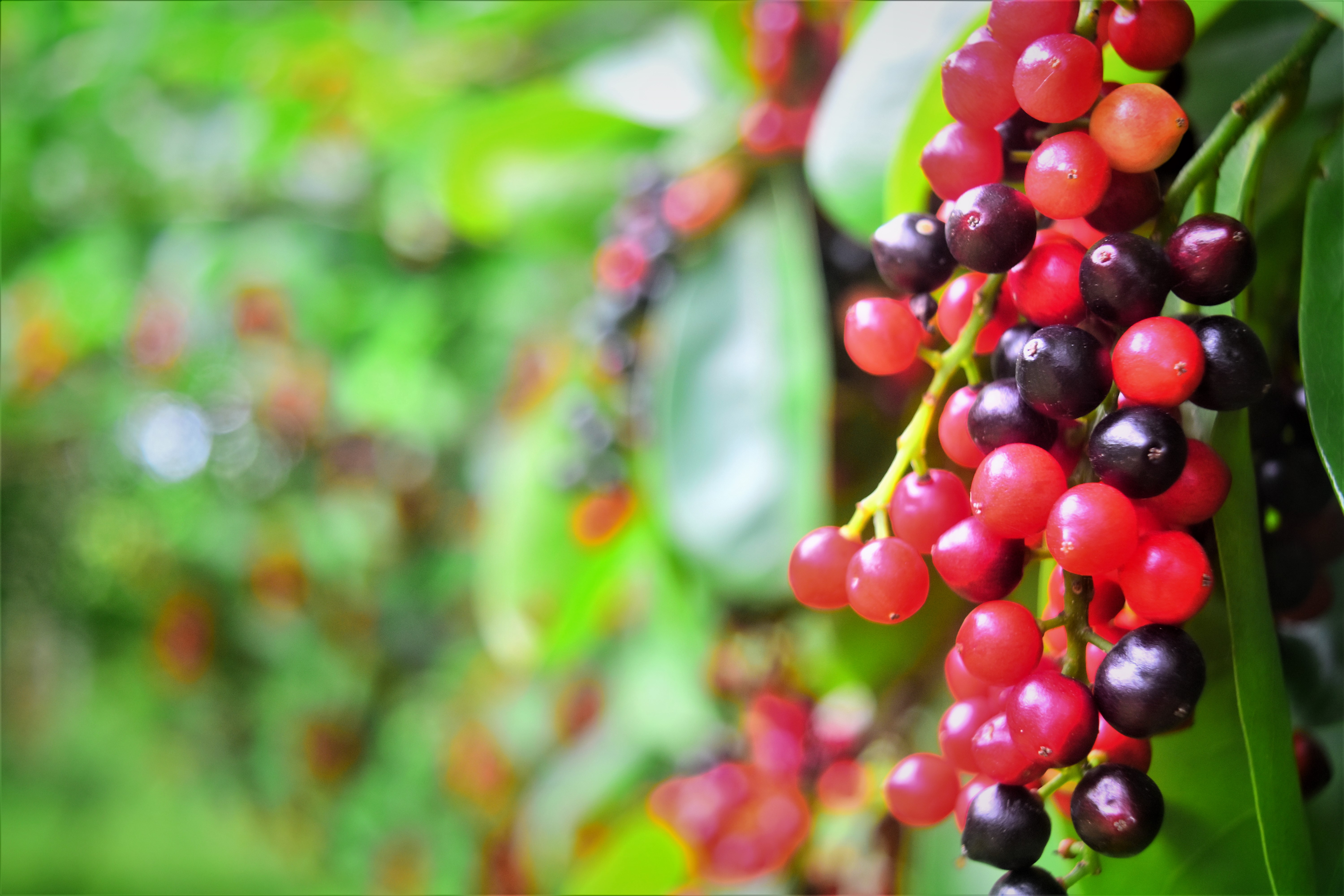 This photo was taken at Mt. Isarog, Camarines Sur, Philippines